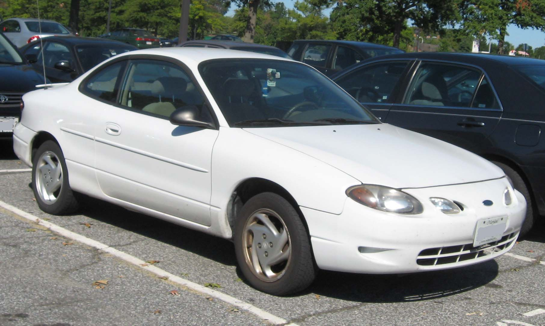 Ford ZX-2 photographed in College Park, Maryland, USA.